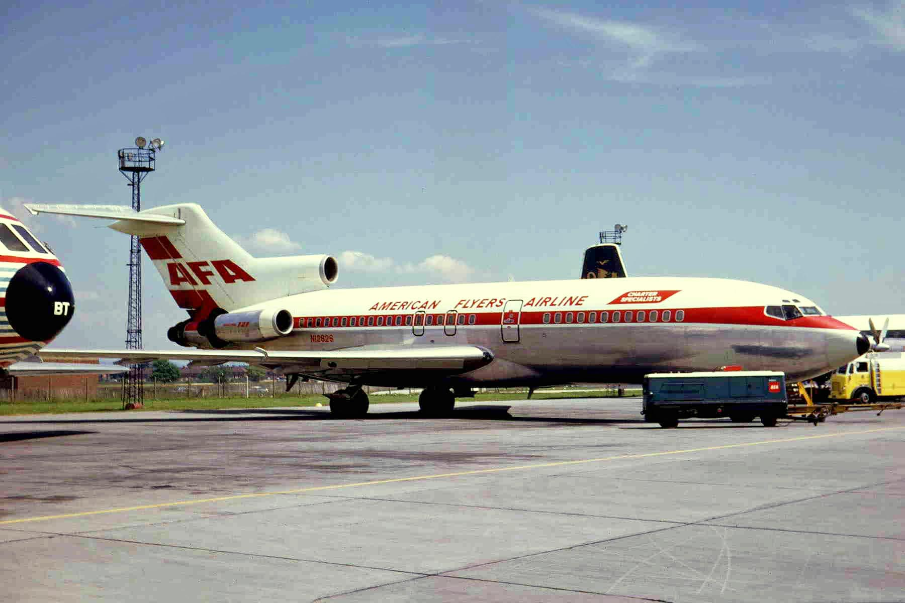 Another regular trans-Atlantic B727 in the late 1960/early 1970's, flanked by a SAM Caravelle & a Caledonian Britannia